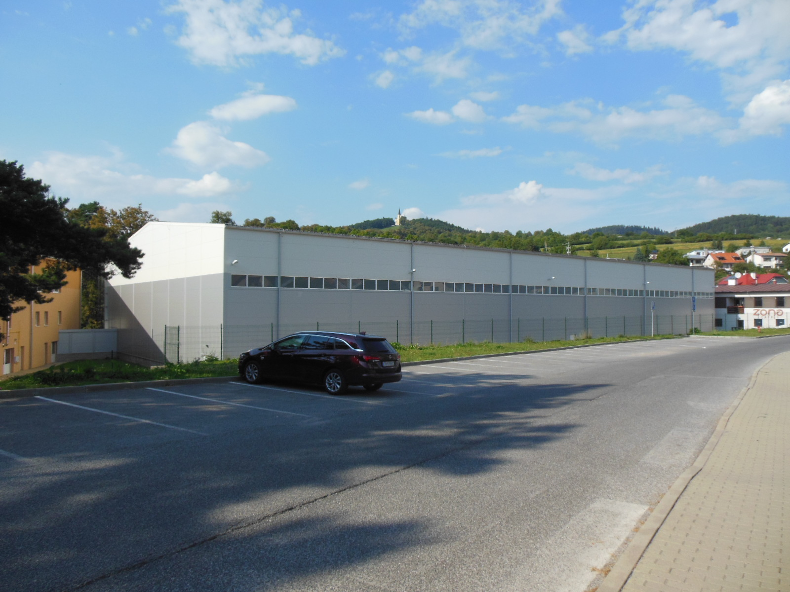 Hockey arena in Levoča, Slovakia. August 2018.